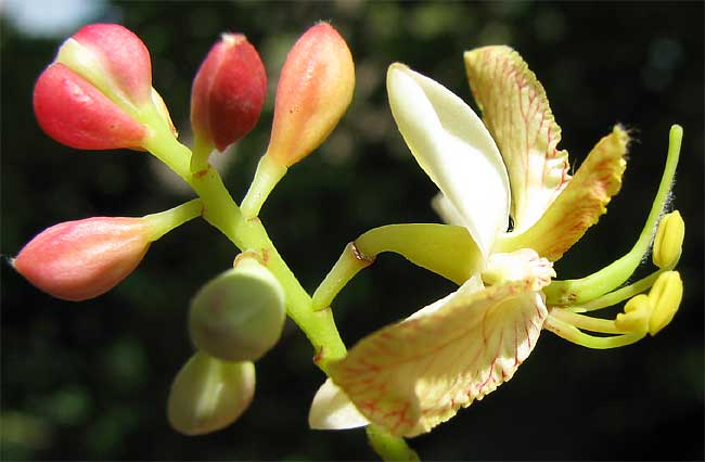 Tamarindus indica flowers. They are of the bean/pea family but have peculiar-looking flowers - large white sepals, only 3 petals, and only 3 stamens.